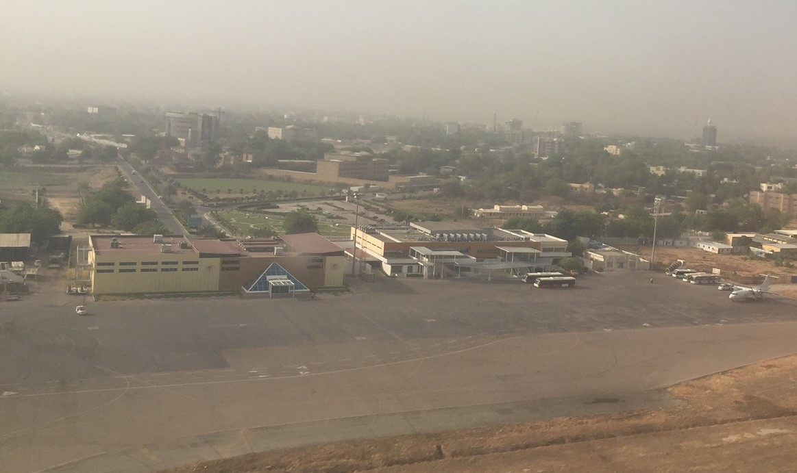 Aerial Photo of N'Djamena International Airport, Chad